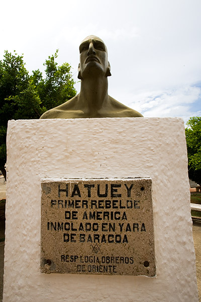 From (Original text: Statue of Hatuey, a Taíno chieftain - Baracoa, Cuba.)